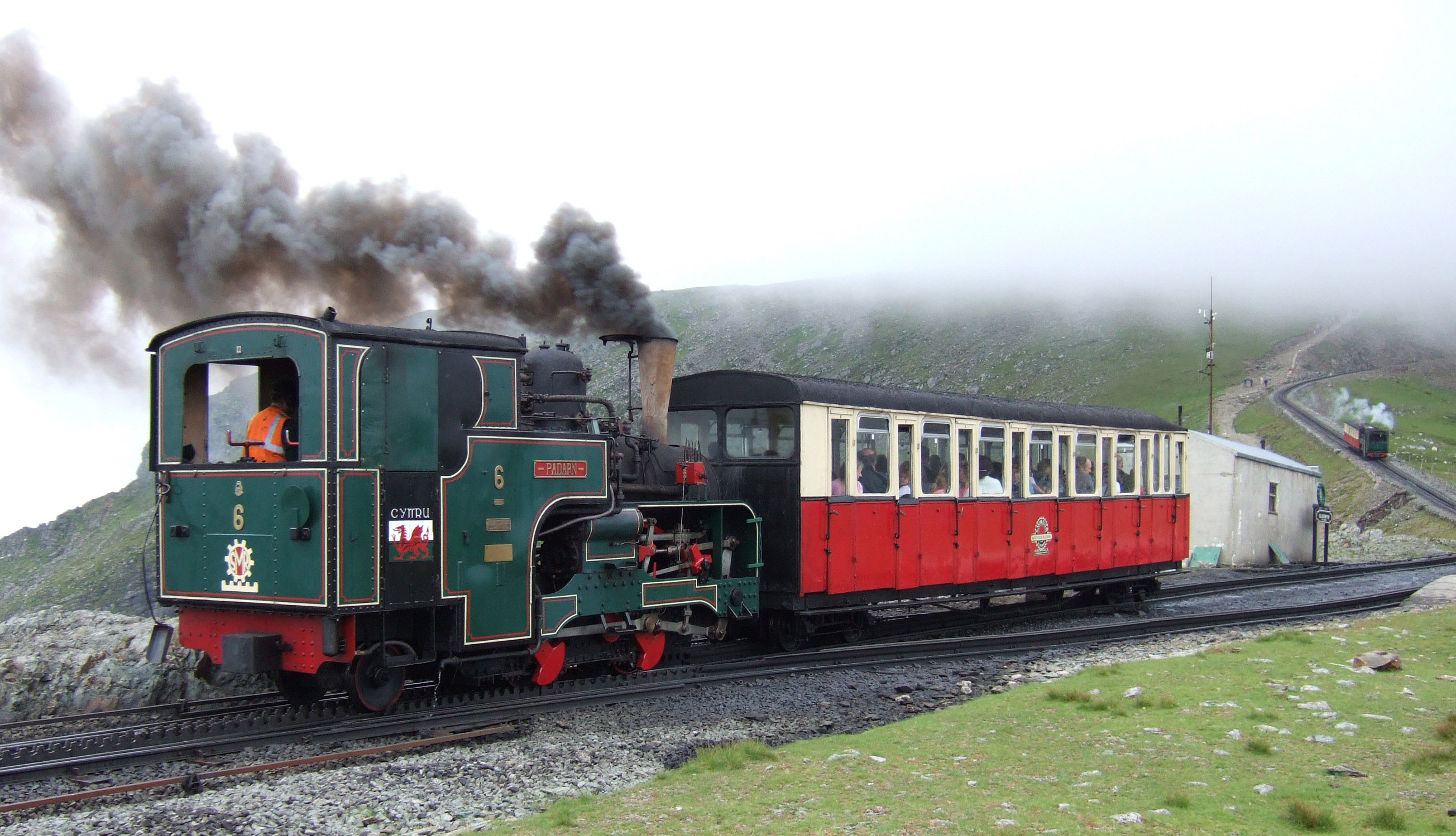 Snowdon Mountain Railway trains pass at Clogwyn. No.6 'Padern' is ascending while No.2 'Enid' is descending out of the clouds. 19th July 2005 Photographer - A.M.Hurrell Camera - Fuji FinePix F10 Modified - Trimmed and file size reduced using Adobe Photoshop 5.0LE